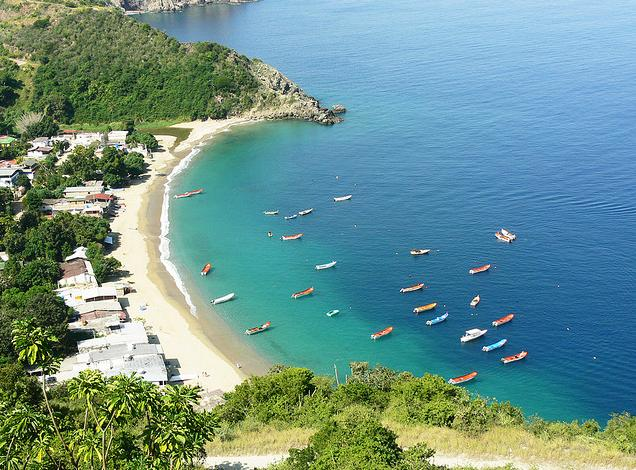 Beach of the west of Vargas State, Venezuela